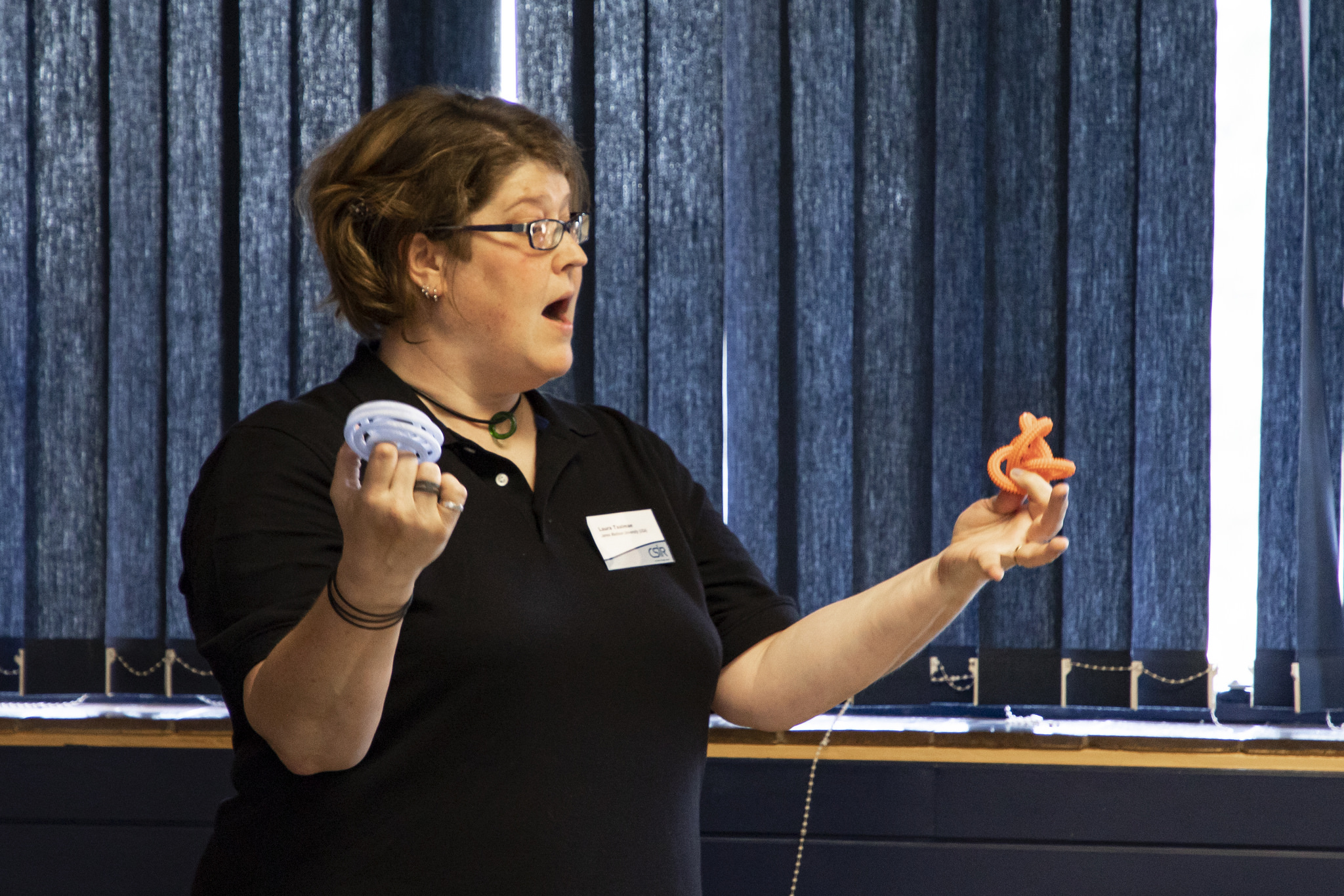 "3D Printing and Mathematics Guru, Laura Taalman, hosts STEM workshop in SA"